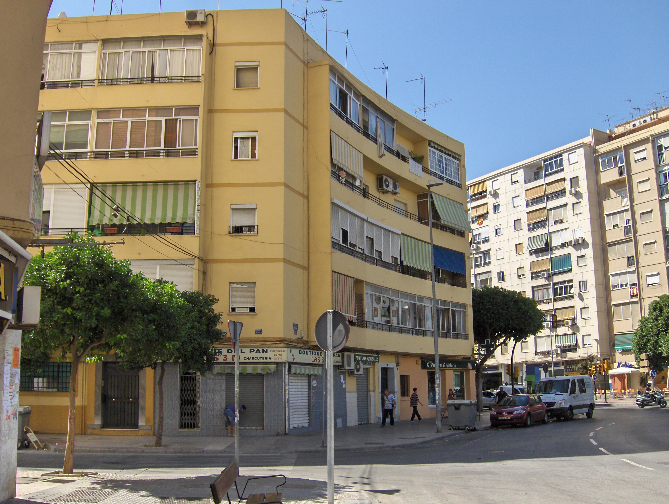 Arroyo del Cuarto.